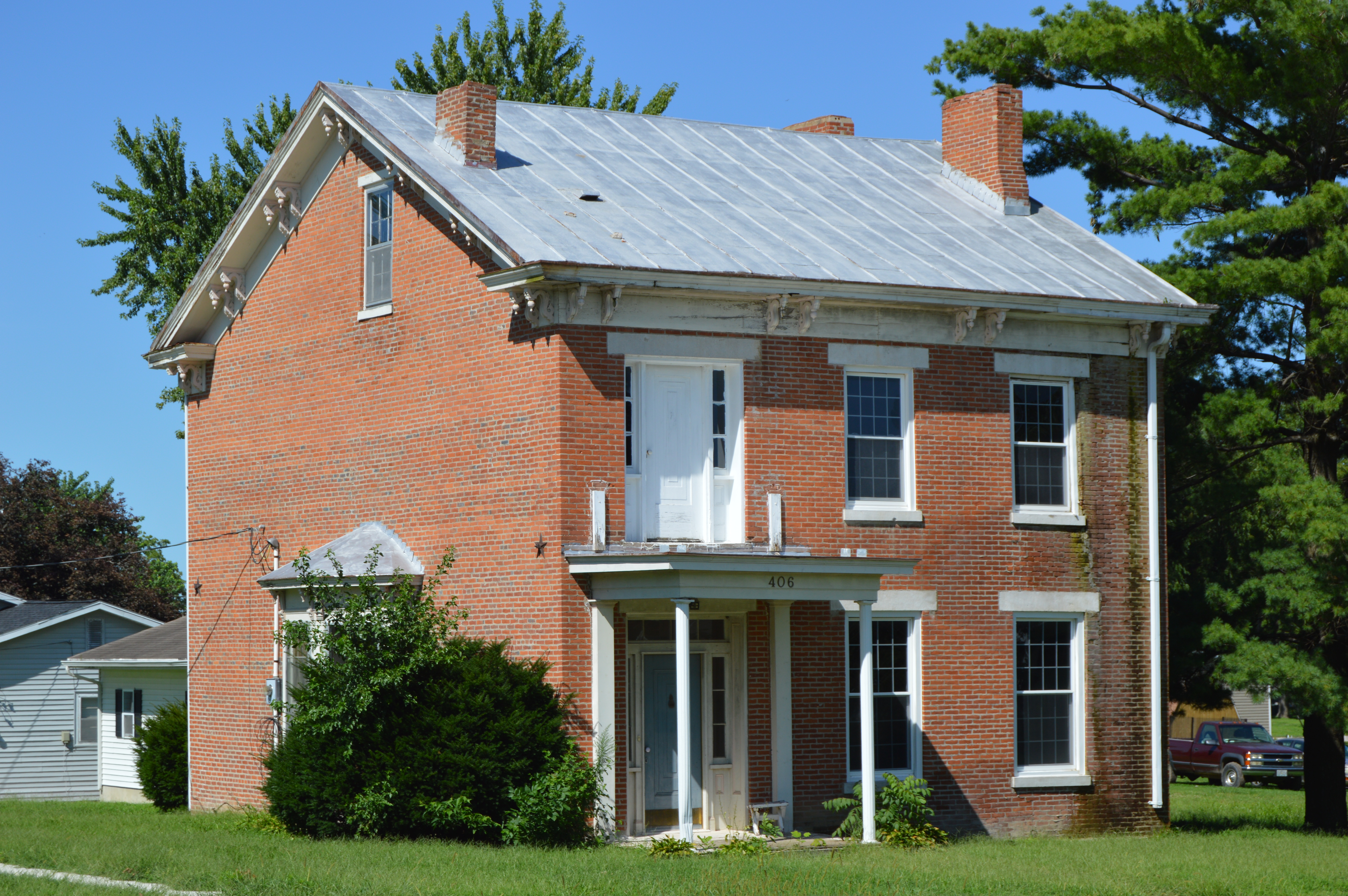 Front and western side of the Dr. J.A. Hay House, located at 406 Monroe Street in La Grange, Missouri, United States. Built in 1854, it is listed on the National Register of Historic Places.